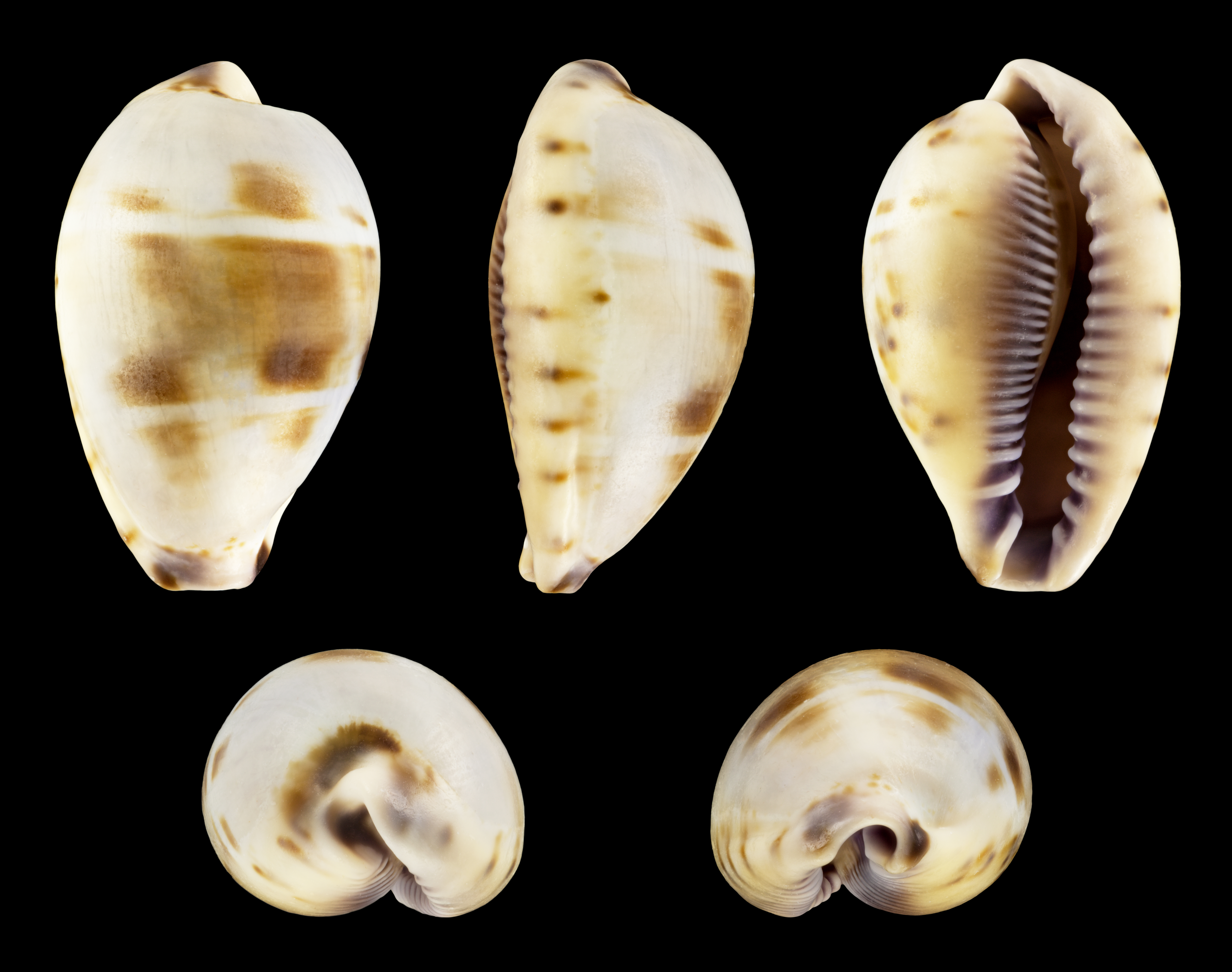 Contradusta walkeri surabajensis (Sowerby, 1832), Surbajan Walker’s Cowrie; Length 2.4 cm; Originating from Japan. Shell of own collection, therefore not geocoded.